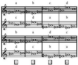 Array from Milton Babbitt's Composition for Four Instruments.